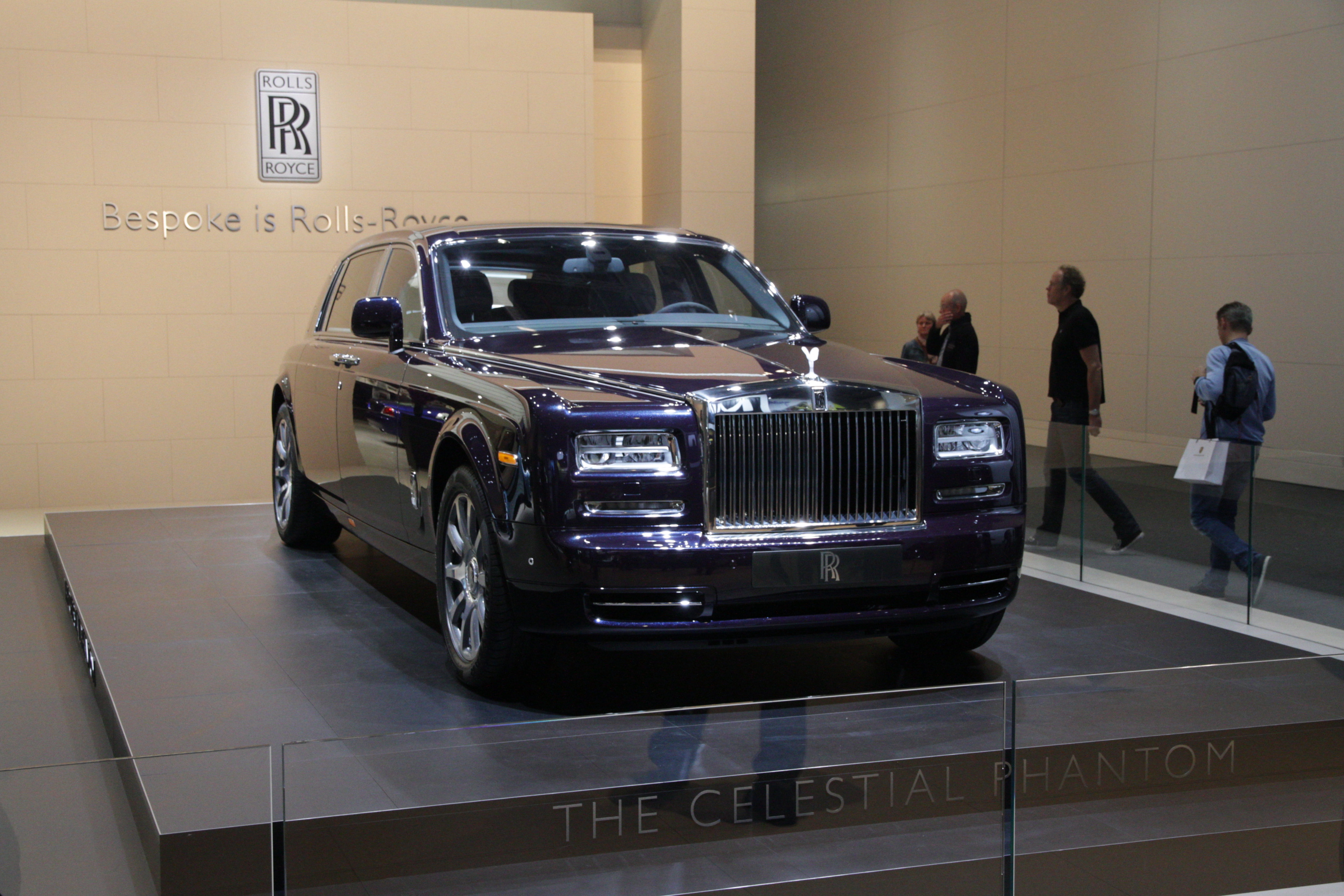 IAA 2013 Frankfurt Germany Rolls Royce